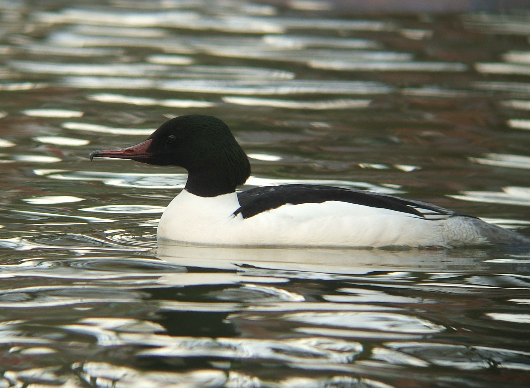 Mergus merganser (Goosander), male, Jesmond Dene, Newcastle, Northumberland, UK